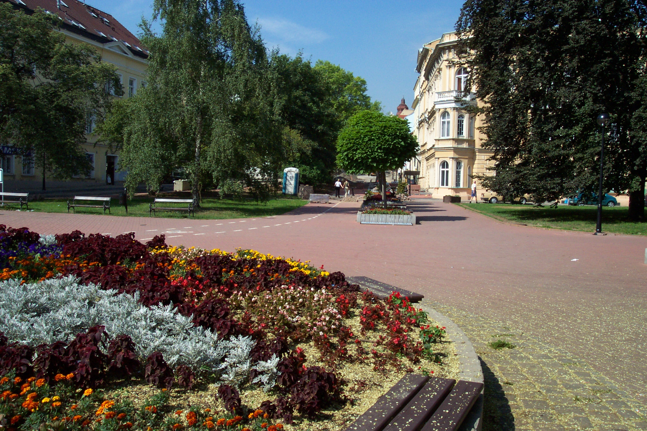 Teplice, spa area